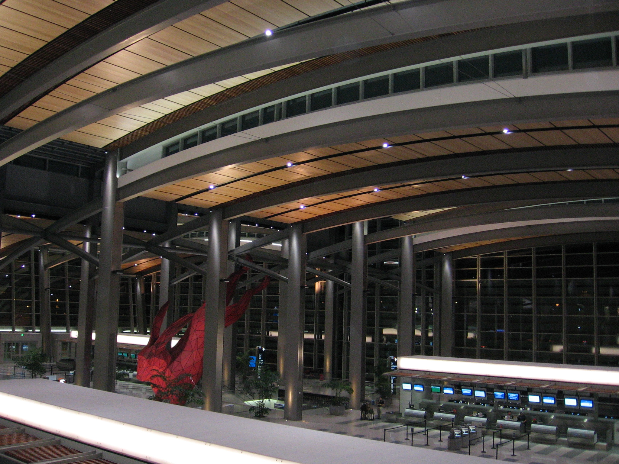 Interior of new Central Terminal B at the Sacramento International Airport in Sacramento County, California, USA.